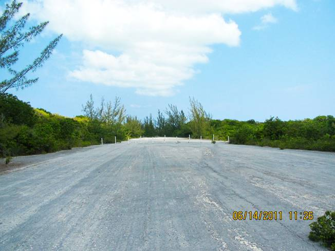 This is the airstrip located on Cistern Cay, Berry Islands, Bahamas